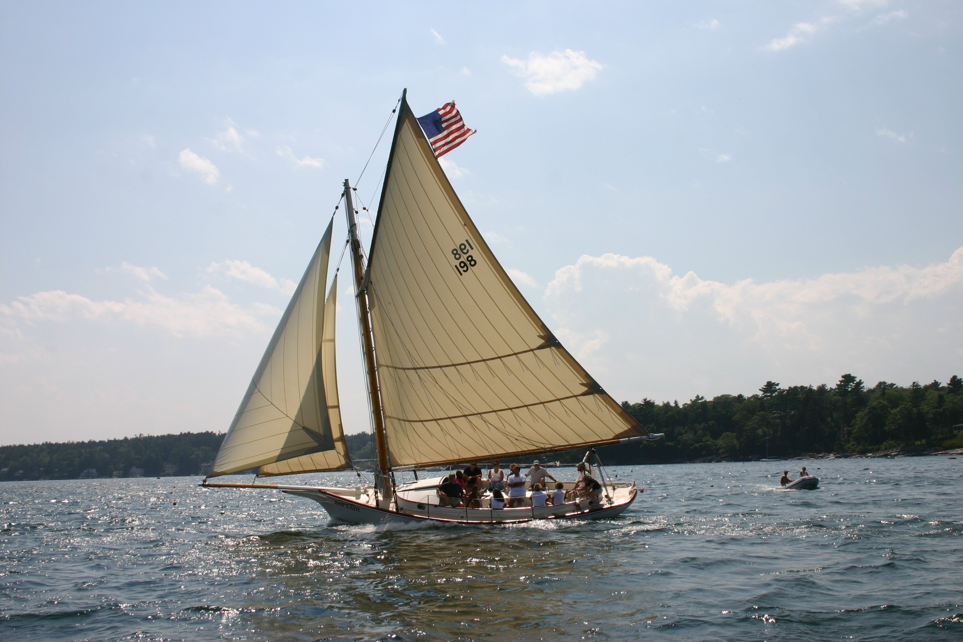 31-foot fiberglass Friendship Sloop Bay Lady, launched 1979 and used for sight-seeing sailing trips since then (according to Balmy Days Cruises); sail number 198.